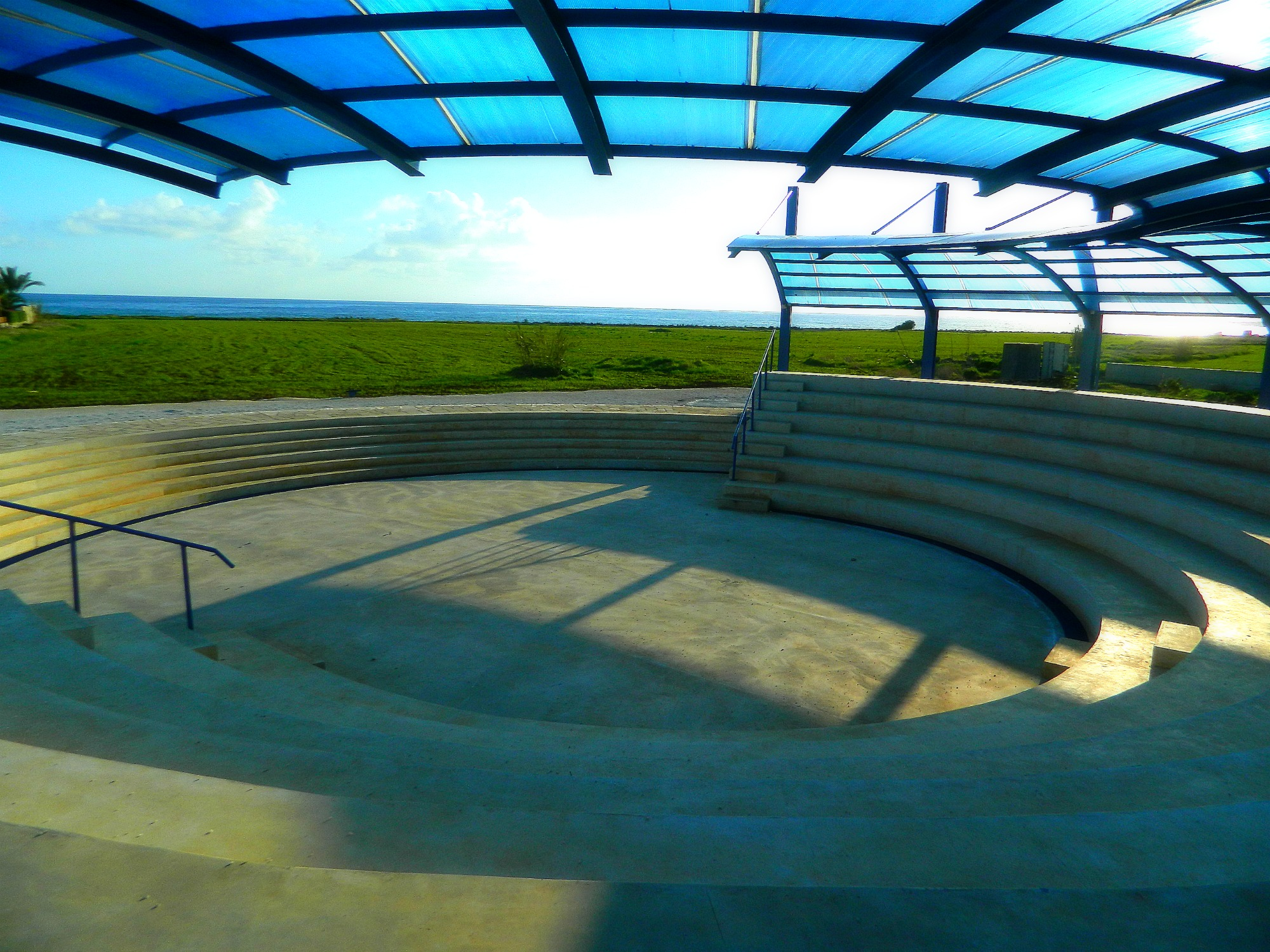 Sotira's amphitheater built a half kilometer away from the chappel.